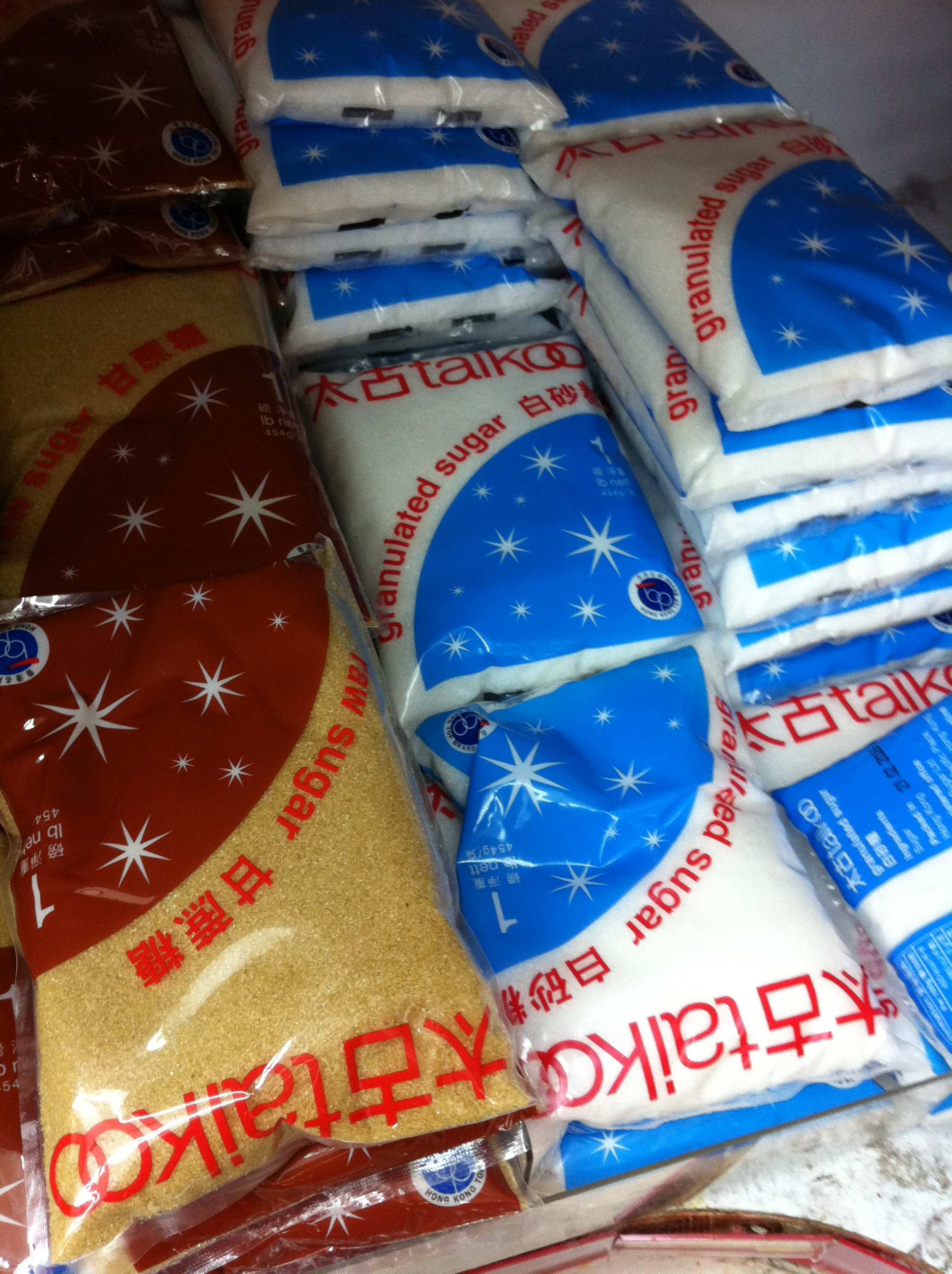 Taikoo Sugar bags